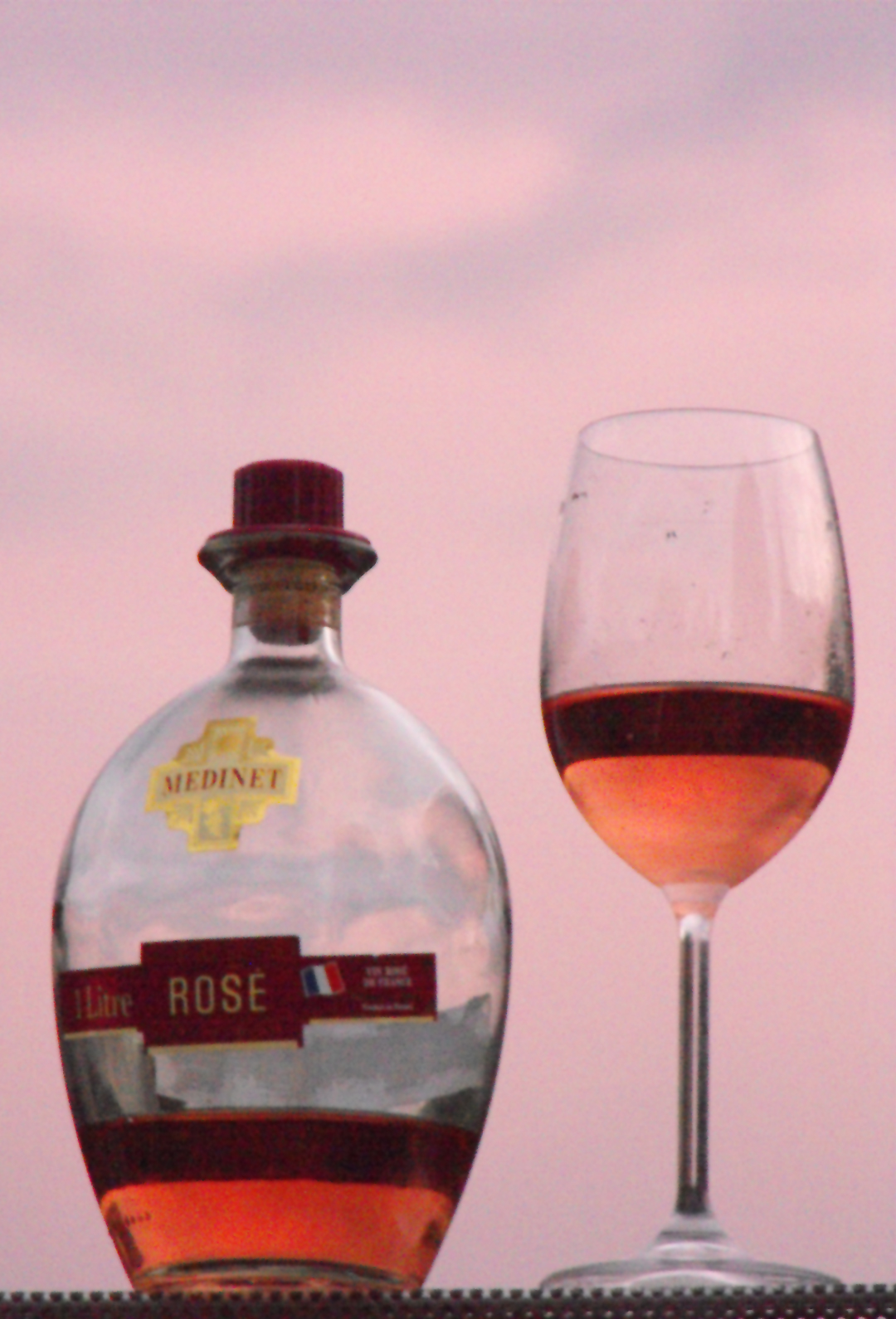 French rose wine in a 1 liter bottle.